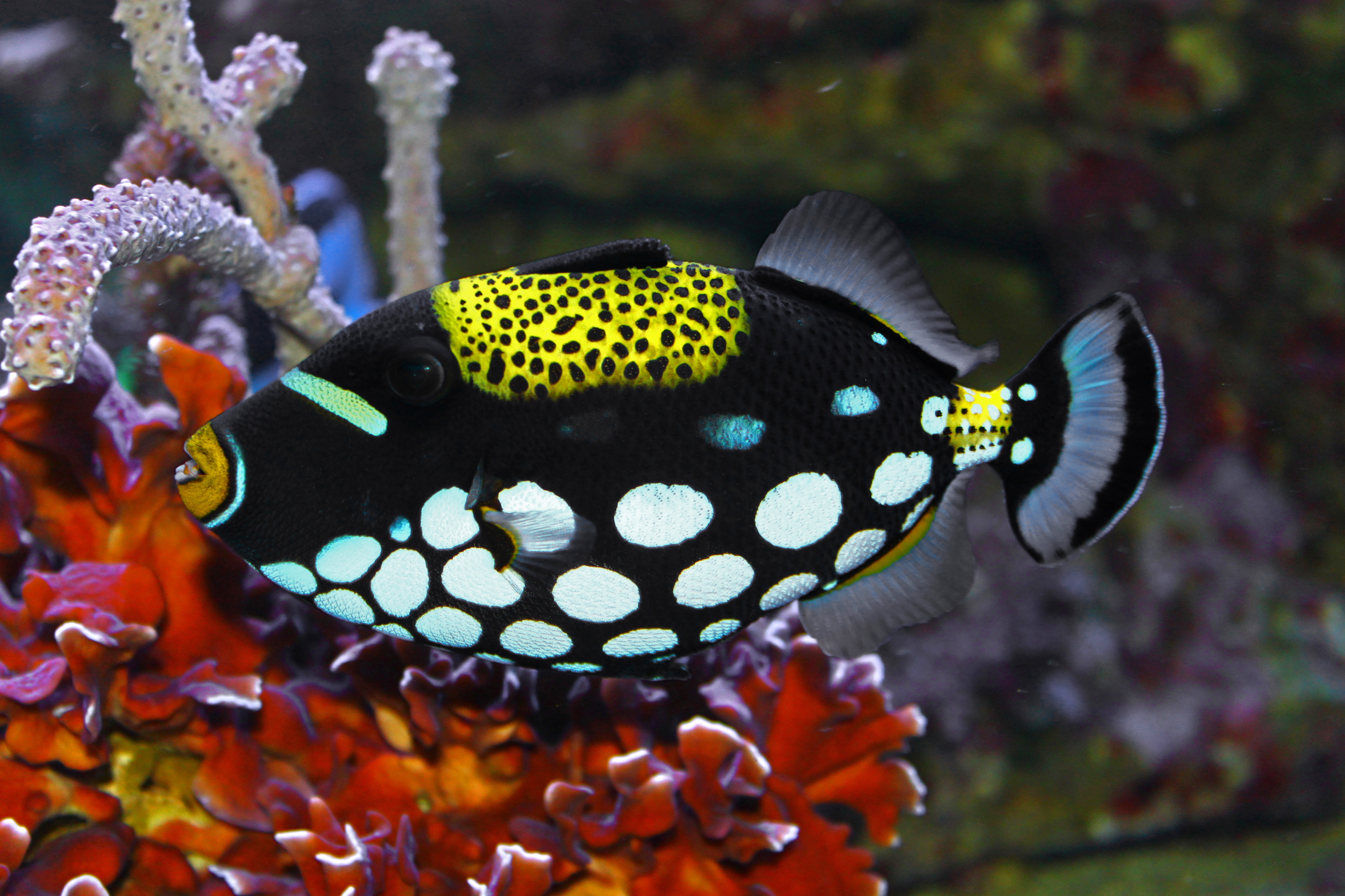 Balistoides conspicillum, Balistidae, Clown Triggerfish; Staatliches Museum für Naturkunde Karlsruhe, Germany.